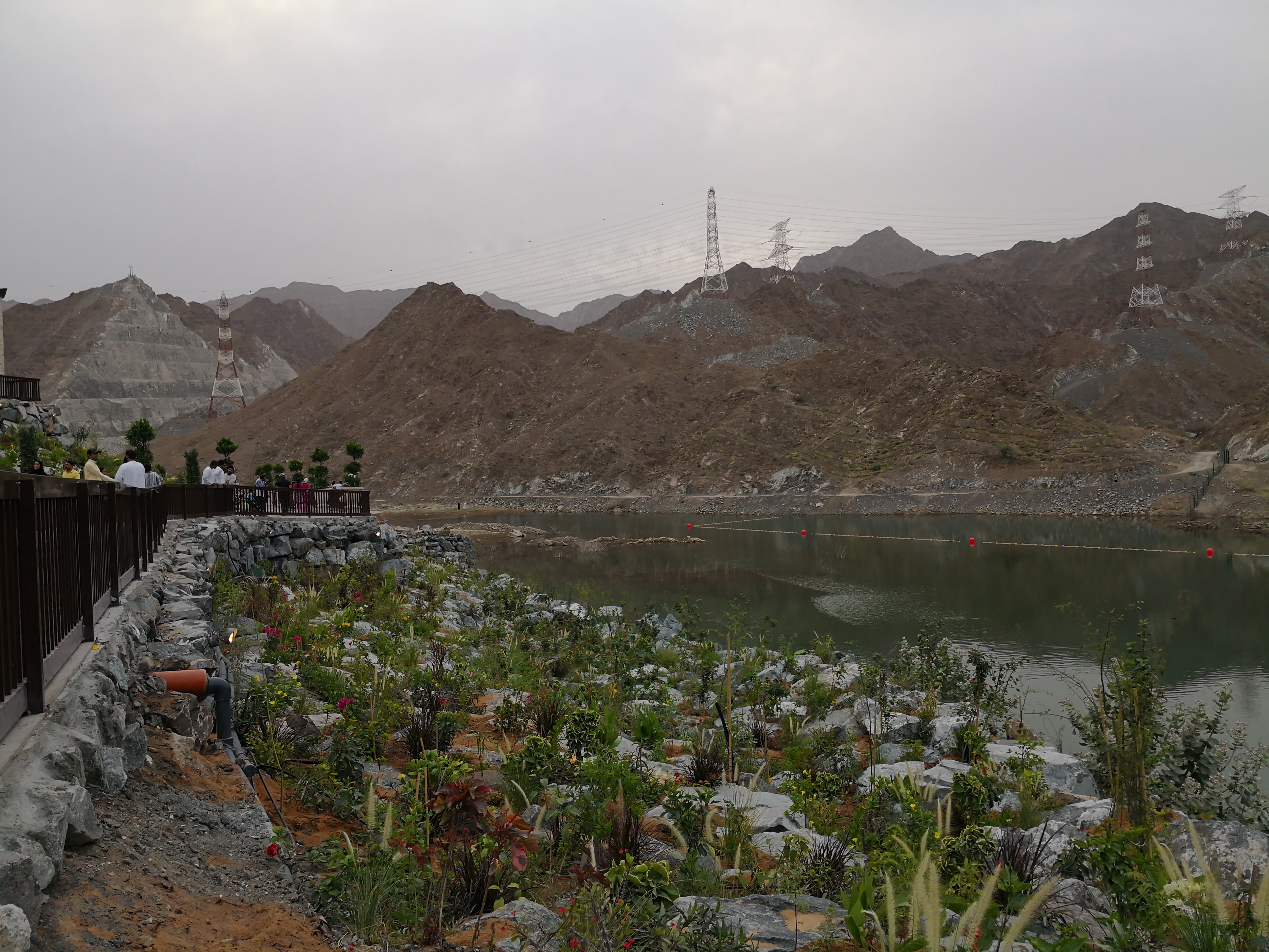 Al Rafisa Dam Rest Area, which has 82,280 square metre wide lake alongside a park, complete with play areas, picnic spots, parking, a restaurant and a mosque. It is located on the new Sharjah-khorfakkan Road.